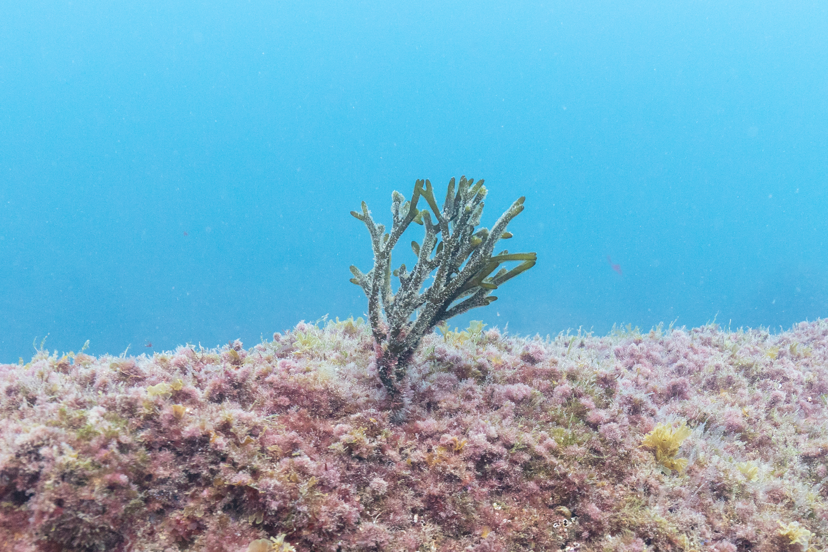 Velvet horn (Codium tomentosum), Mouro Island, Santander, Spain